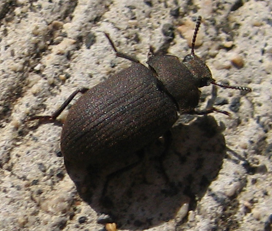 Gonocephalum adpressiforme, aka Gonocephalum Darkling Beetle